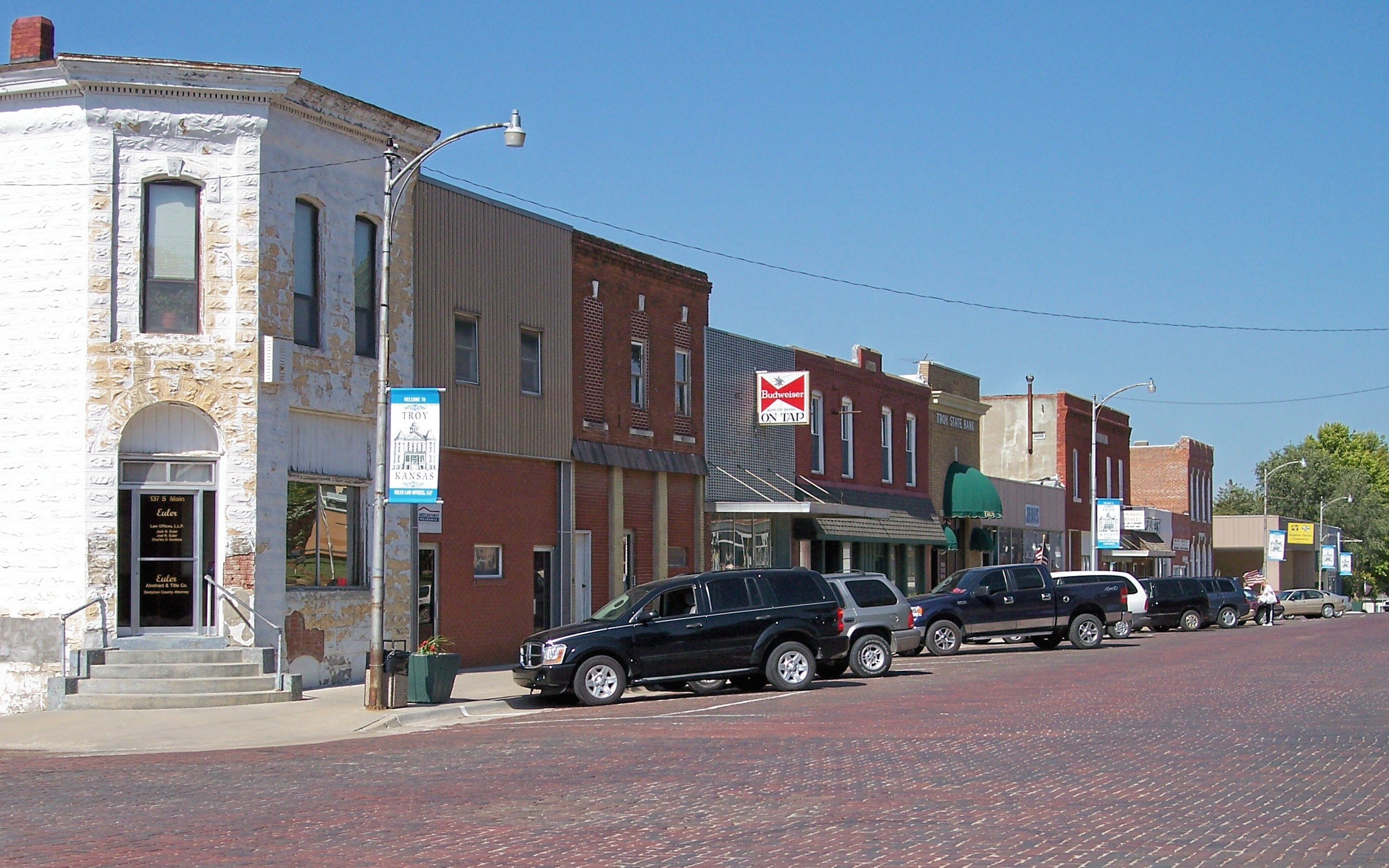 Along South Main Street in the Doniphan County Courthouse Square Historic District in downtown Troy, Kansas, United States. The district is listed on the National Register of Historic Places.